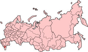 Locator map for Chechnya republic within Russia.